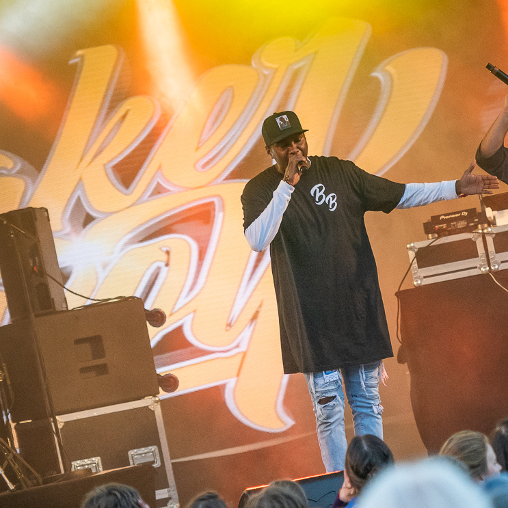 Australian musicians Baker Boy (left), Dallas Woods (centre), and Kian (right) performing at the 2018 Riddu Riđđu festival in Norway